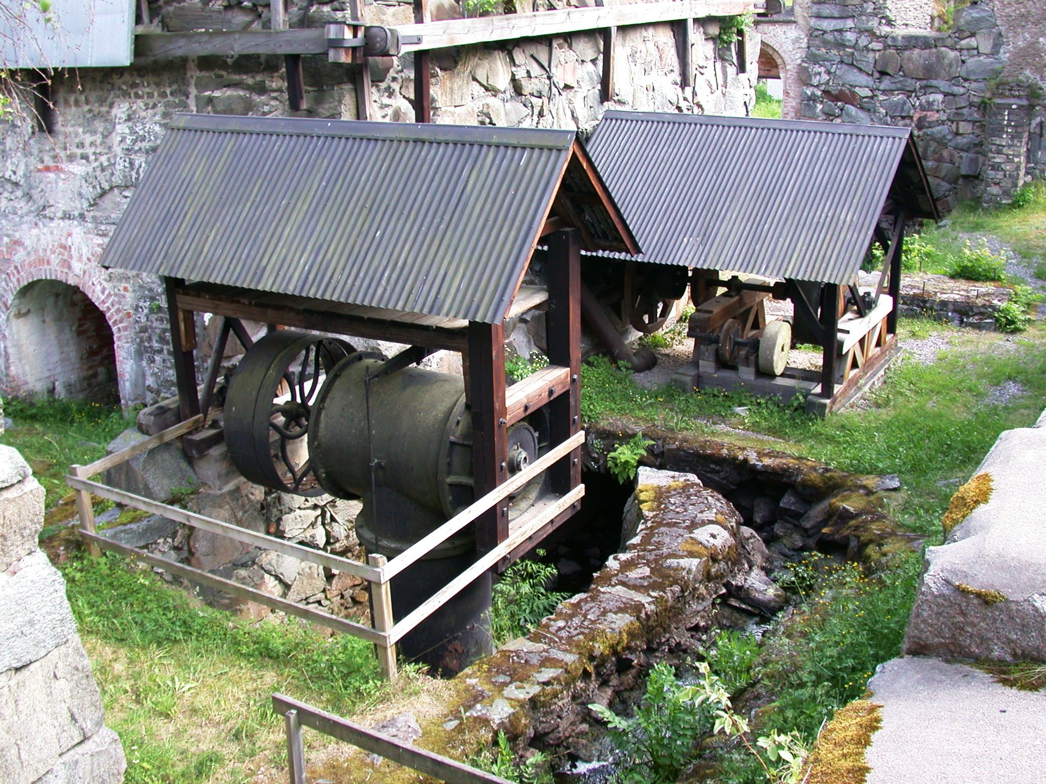 Power turbines for the saw mill at Bennebol, Uppsala, Sweden